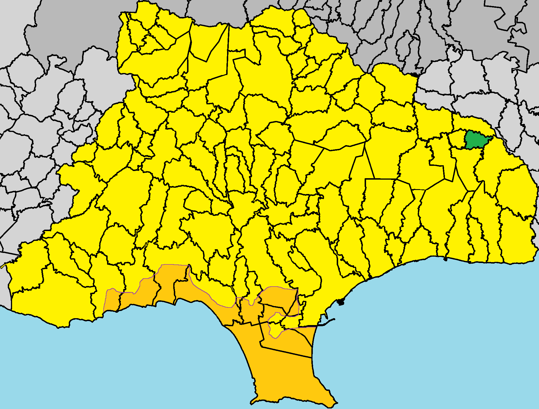 Vikla in Limassol District.